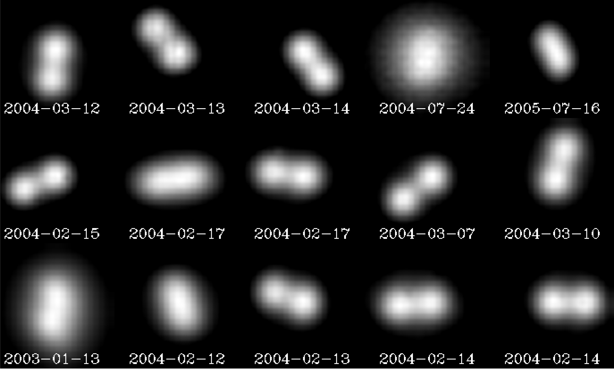 Very Large Telescope observations of the double asteroid (90) Antiope during 2004. The adaptive optics NACO instrument was used, allowing the astronomers to perfectly distinguish the two components and so, precisely determine the orbit. The two objects are separated by 171 kilometres (106 mi), and they perform their celestial dance in 16.5 hours. The adaptive optics observations could, however, never resolve the shape of the individual components as they are too small.